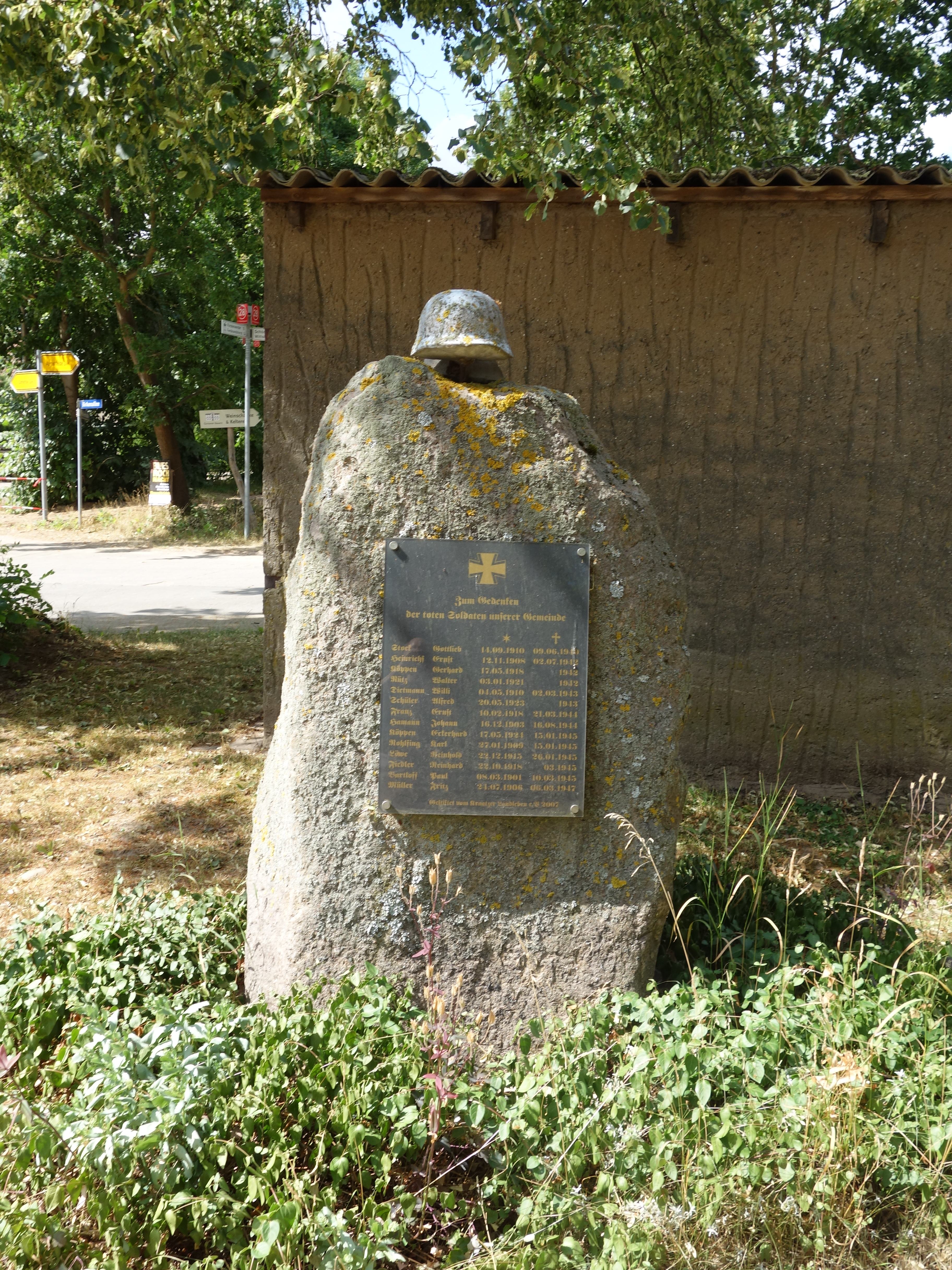 World War I memorial in Kraatz , Nordwestuckermark municipality, Uckermark district, Brandenburg state, Germany